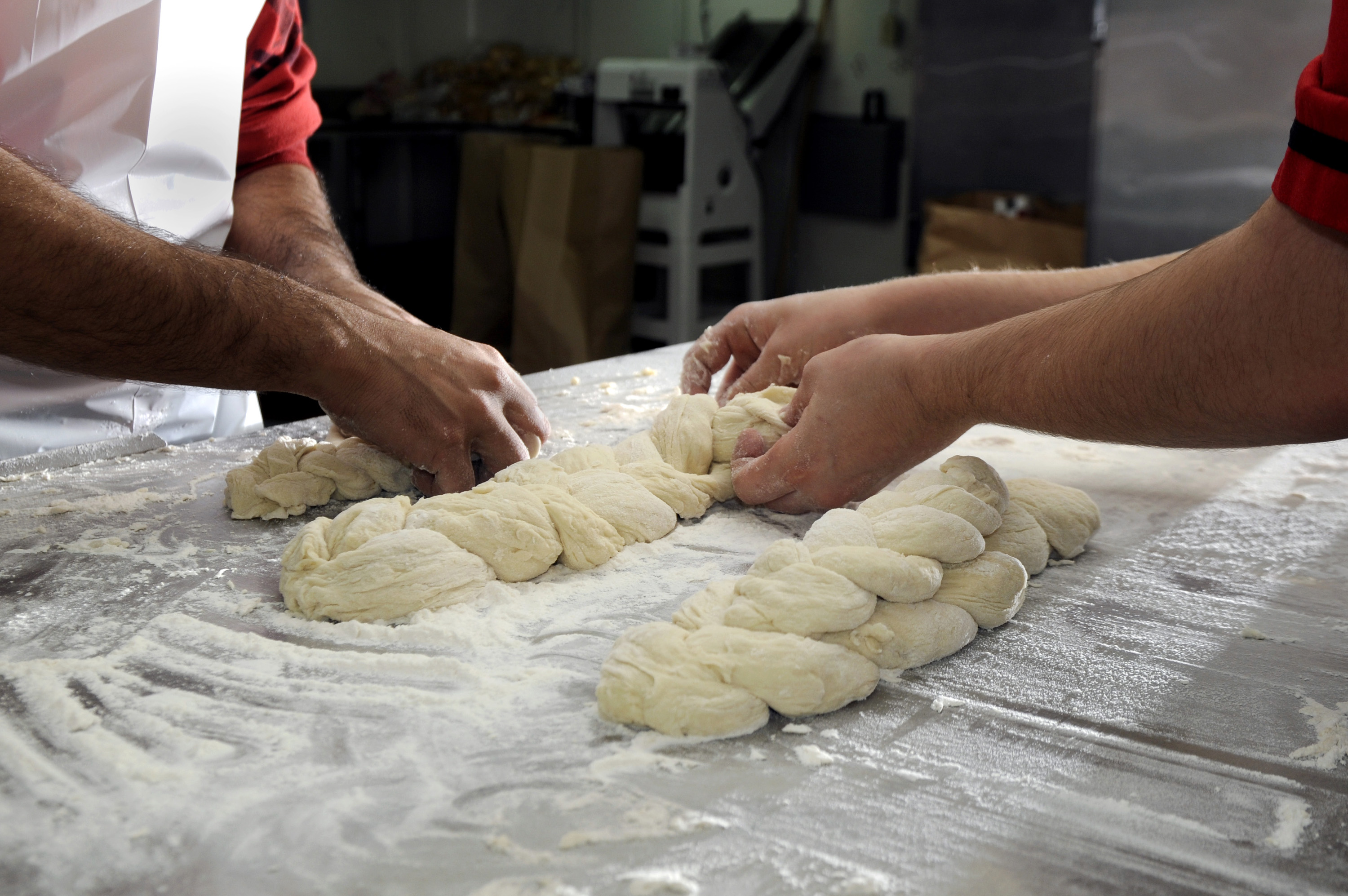 PACIFIC OCEAN (Sept. 28, 2011) Aviation Ordnanceman 2nd Class Abraham Dweck, left, and Culinary Specialist 3rd Class Samantha Achille prepare traditional bread for a celebration of the Jewish holiday Rosh Hashana in the bake shop aboard the Nimitz-class aircraft carrier USS Carl Vinson (CVN 70). Carl Vinson and Carrier Air Wing (CVW) 17 are underway conducting operations off the coast of Southern California. (U.S. Navy photo by Mass Communication Specialist Seaman Nicolas C. Lopez/Released)